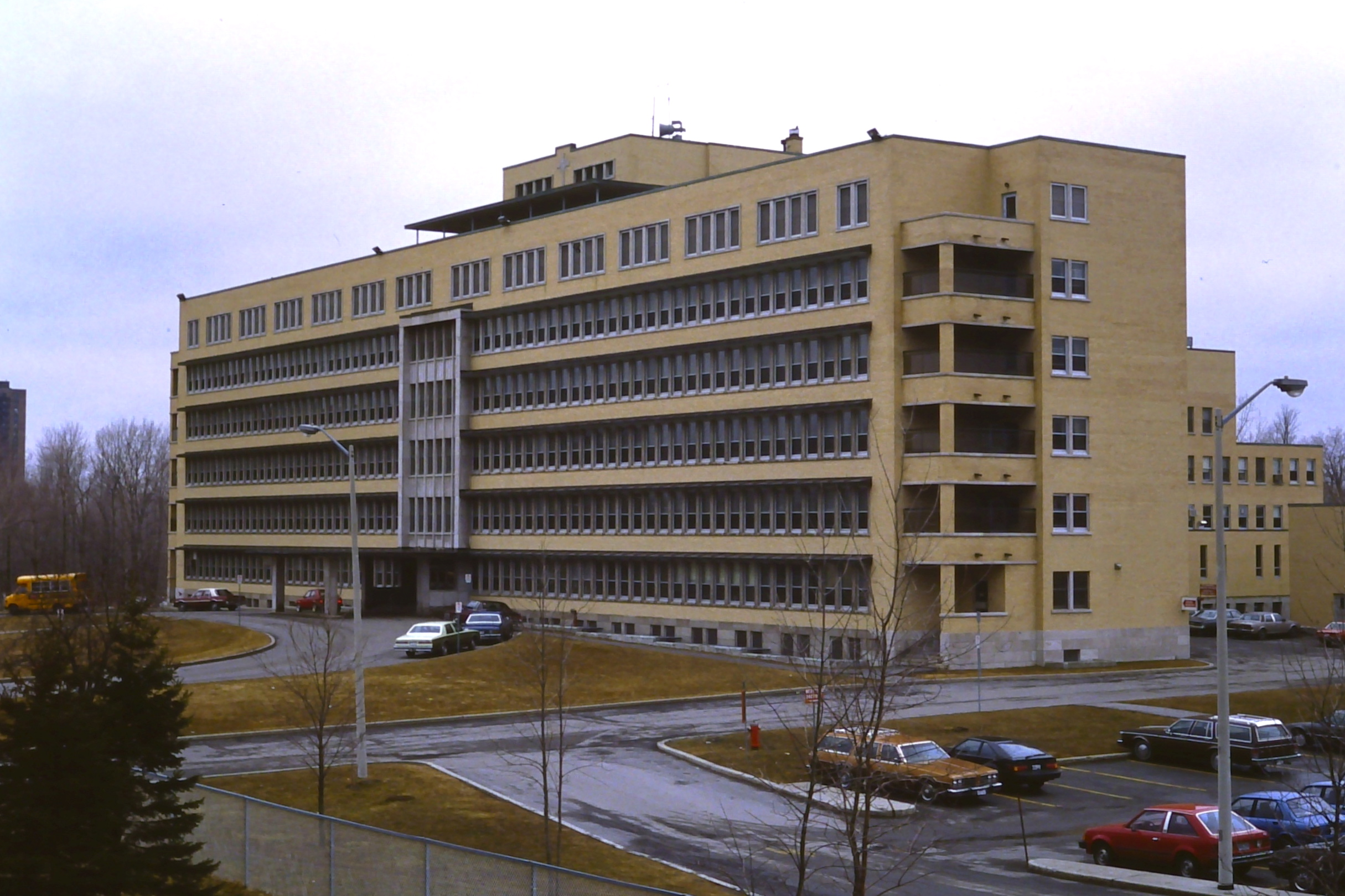 Montfort Hospital's original 1950s building prior to expansions. Picture taken in 1982.